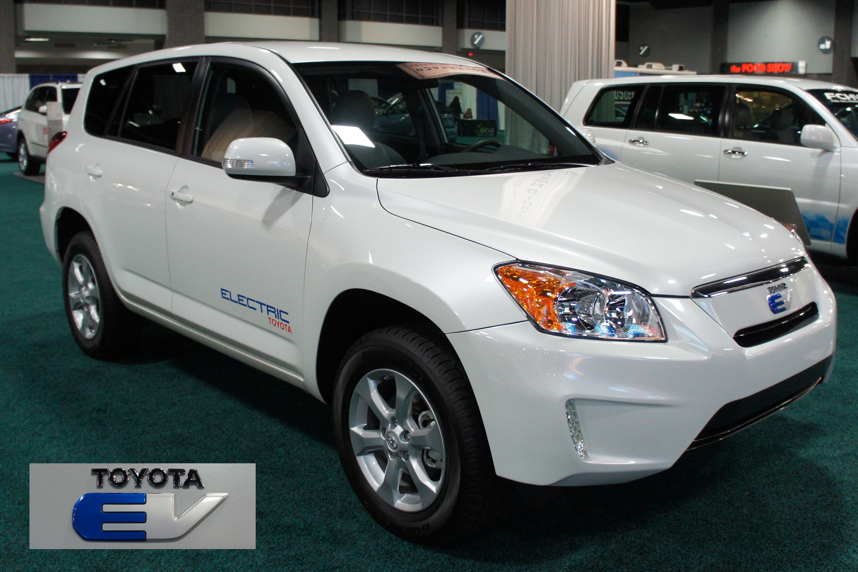 Toyota RAV4 EV prototype (demonstrator) 2012 Washington Auto Show. This is one of the 35 vehicles built for demonstration and evaluation. Insert with Toyota EV badge.